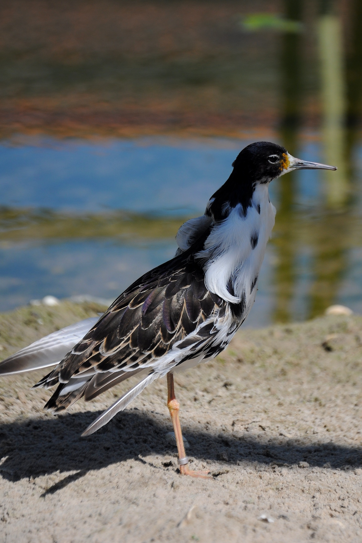 An adult male Ruff at Pensthorpe Nature Reserve, Norfolk, England.